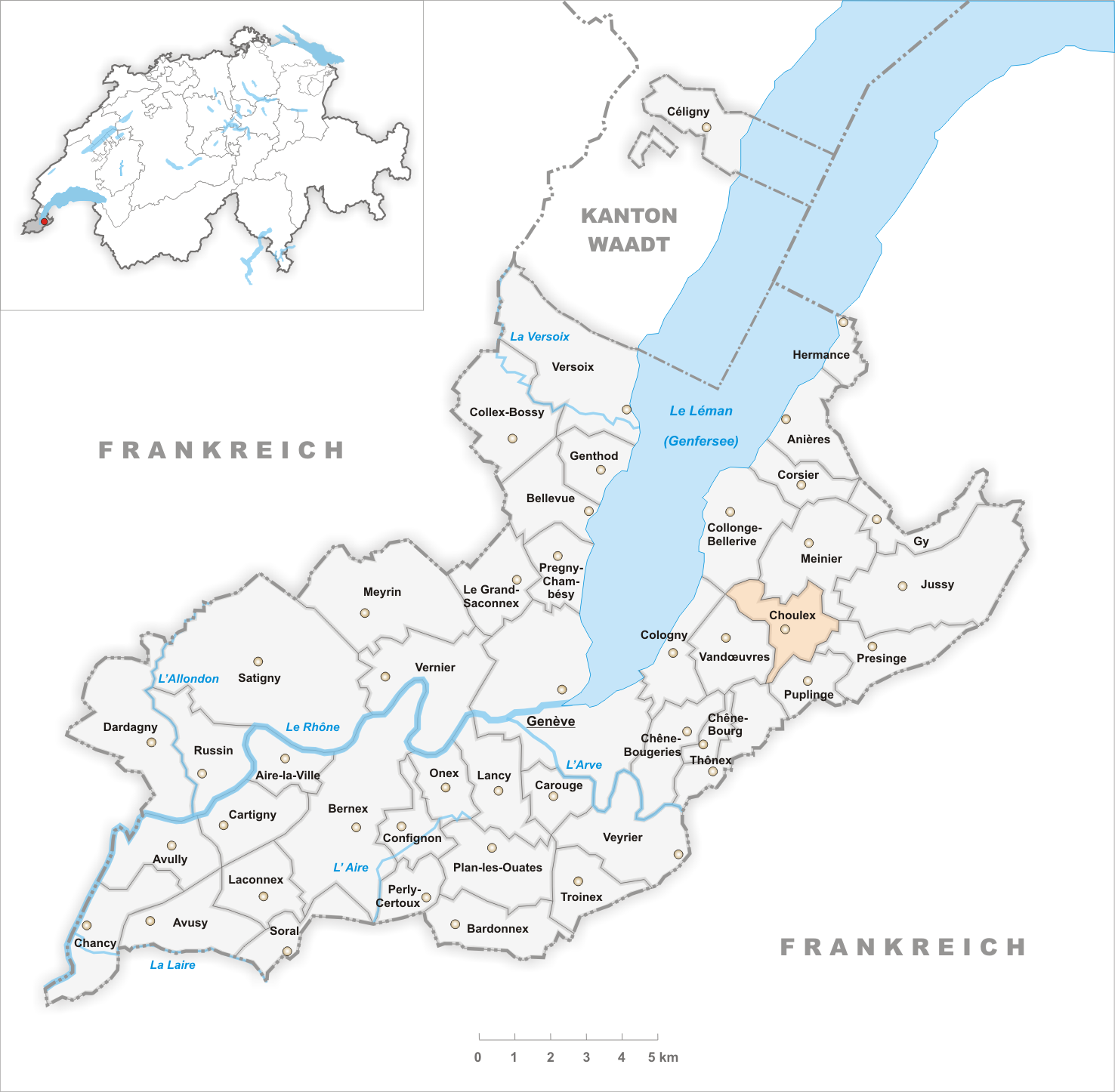 Municipality Choulex